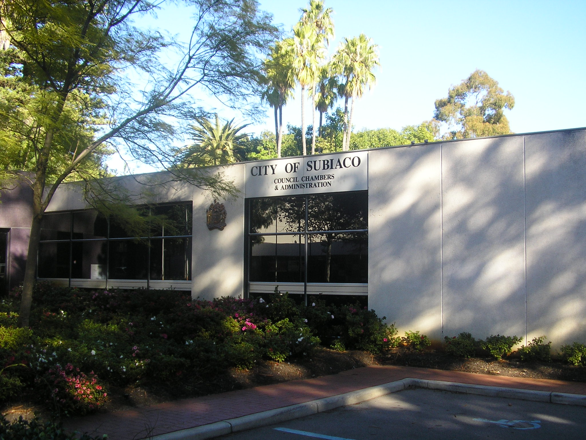 City of Subiaco council chambers, in Subiaco, Perth Western Australia